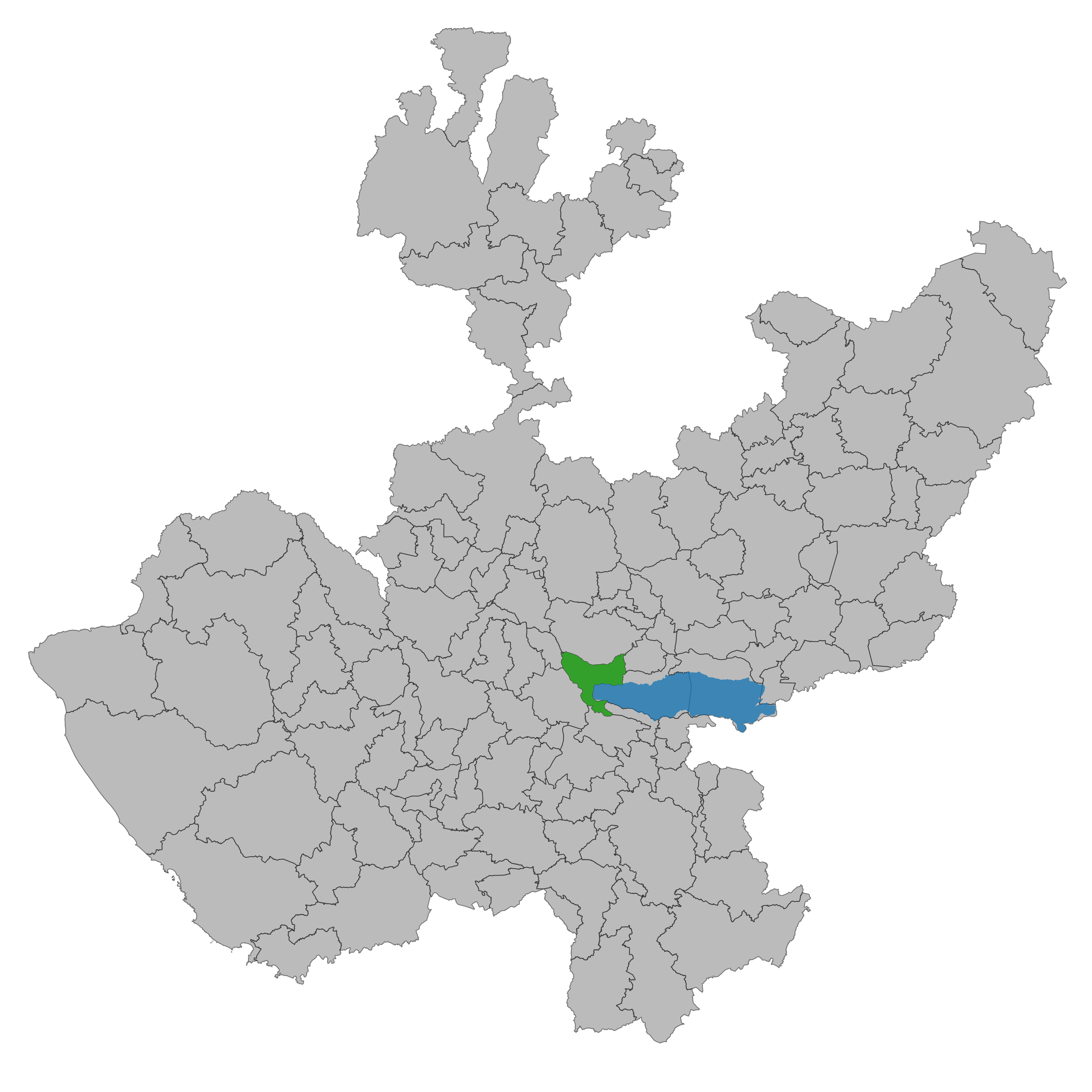 Municipality of Jalisco. Prepared with the software QGIS version 2.8.2 Wien & with information of SCINCE 2010 version 05/2013